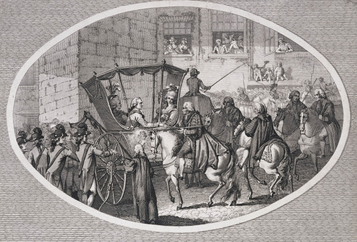 Lord Mayor presenting city sword to His Majesty on his procession to St Paul's, 1789. The Lord Mayor of London for 1789 was William Pickett, the king of the time was George III of Great Britain.